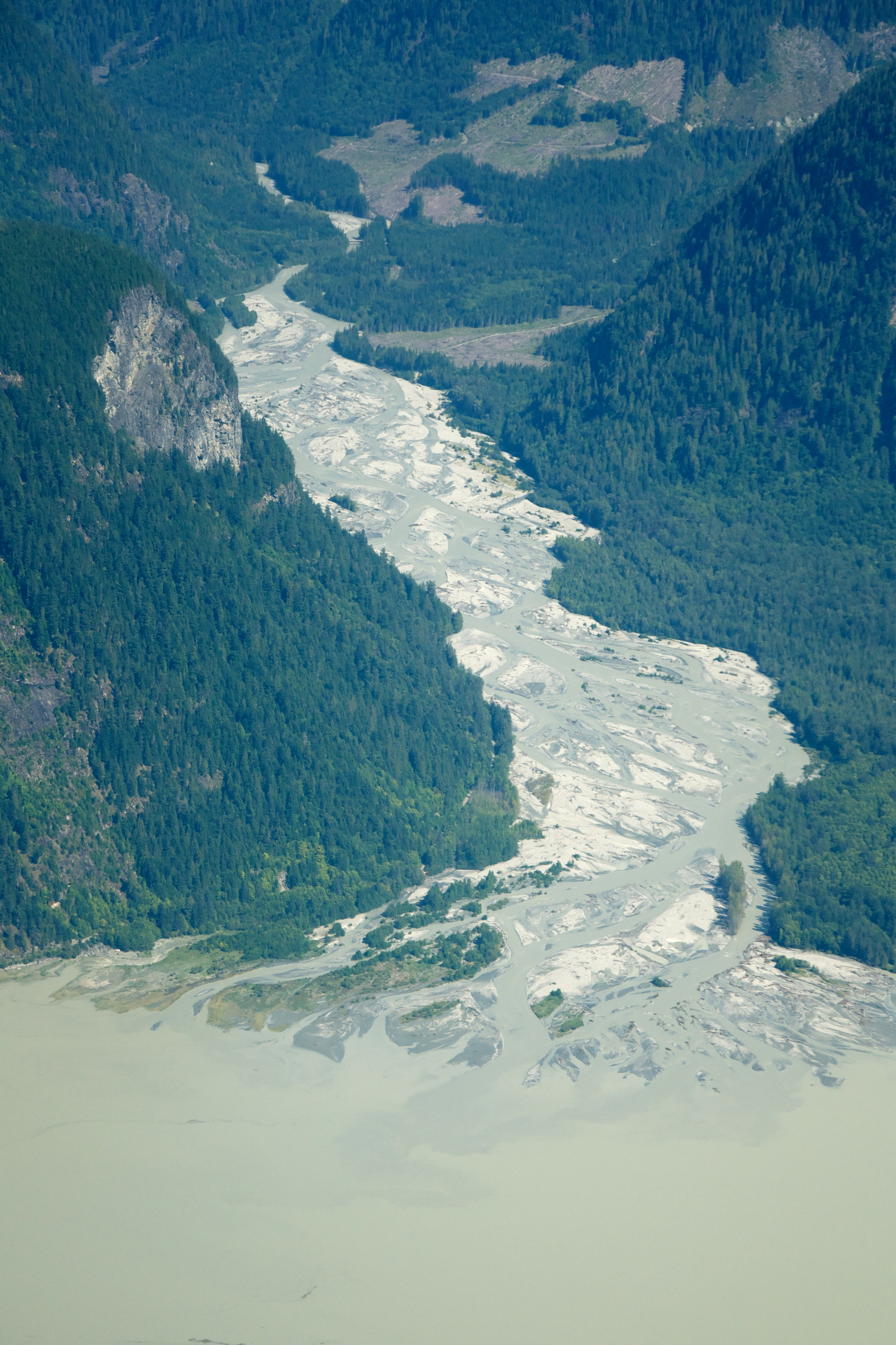 Knight Inlet